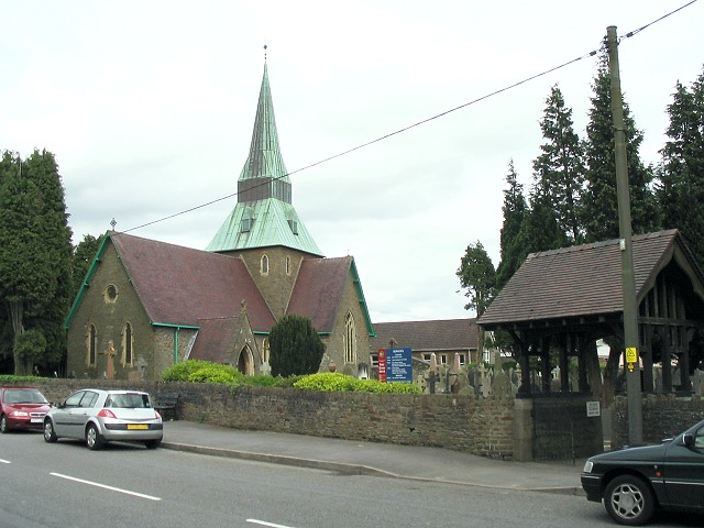 Holy Trinity church, Felinfoel. The distinctive green spire is visible from all around.